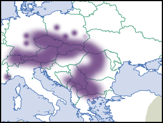 Oxychilus depressus (Sterki, 1880). Distribution in Europe, scientific state of knowledge of 2012. Source description in English. Light colour indicated rare occurrences or regions where the species could eventually be expected to occur. Dark colour indicated relatively reliable occurrences, as well as regions where the species was expected to occur, and where the species was not known to be extremely rare. Dark colour indications were not necessarily based on published records. Species summary in AnimalBase